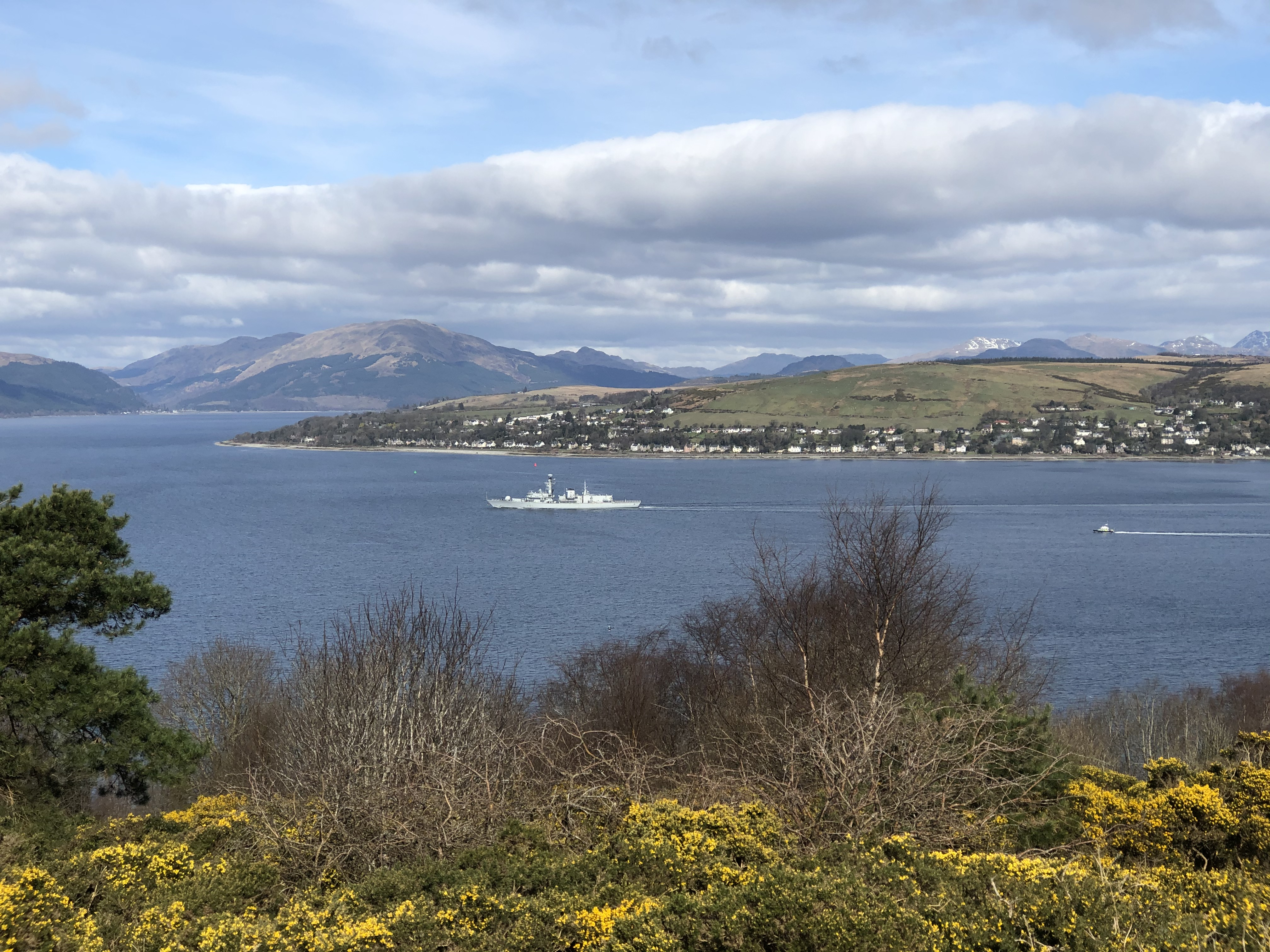 HMS Sutherland (F81) heading west in the Firth of Clyde on the second day of Exercise Joint Warrior 20/1, passing Kilcreggan and approaching Cove Point were Loch Long joins the Clyde. The Arrochar Alps form the skyline to the right, with the snowy peak of Beinn Ìme behind the dark mass of The Cobbler. View from Tower Hill, Gourock.